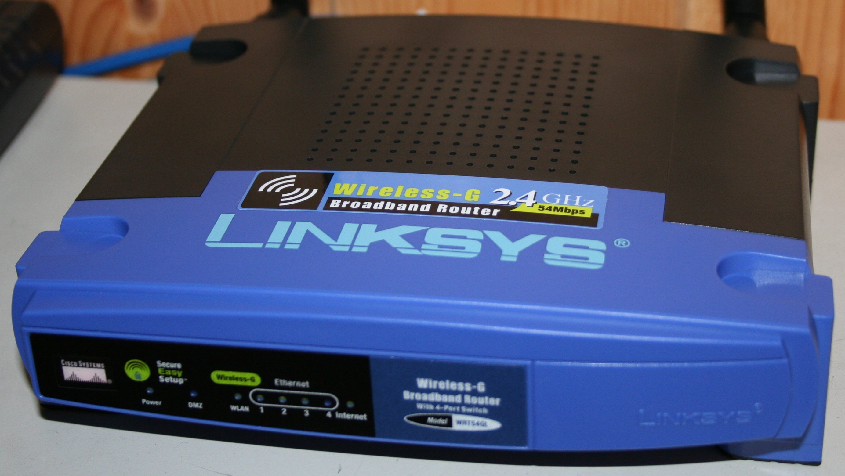 Linksys WRT54GL Wireless-G Router